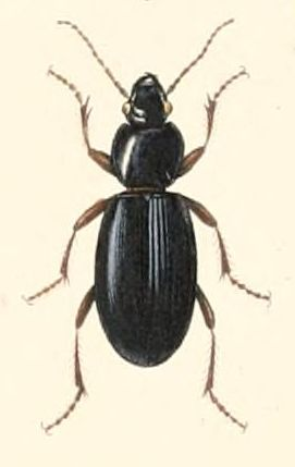 « Feronia lateralis » = Feronia lateralis